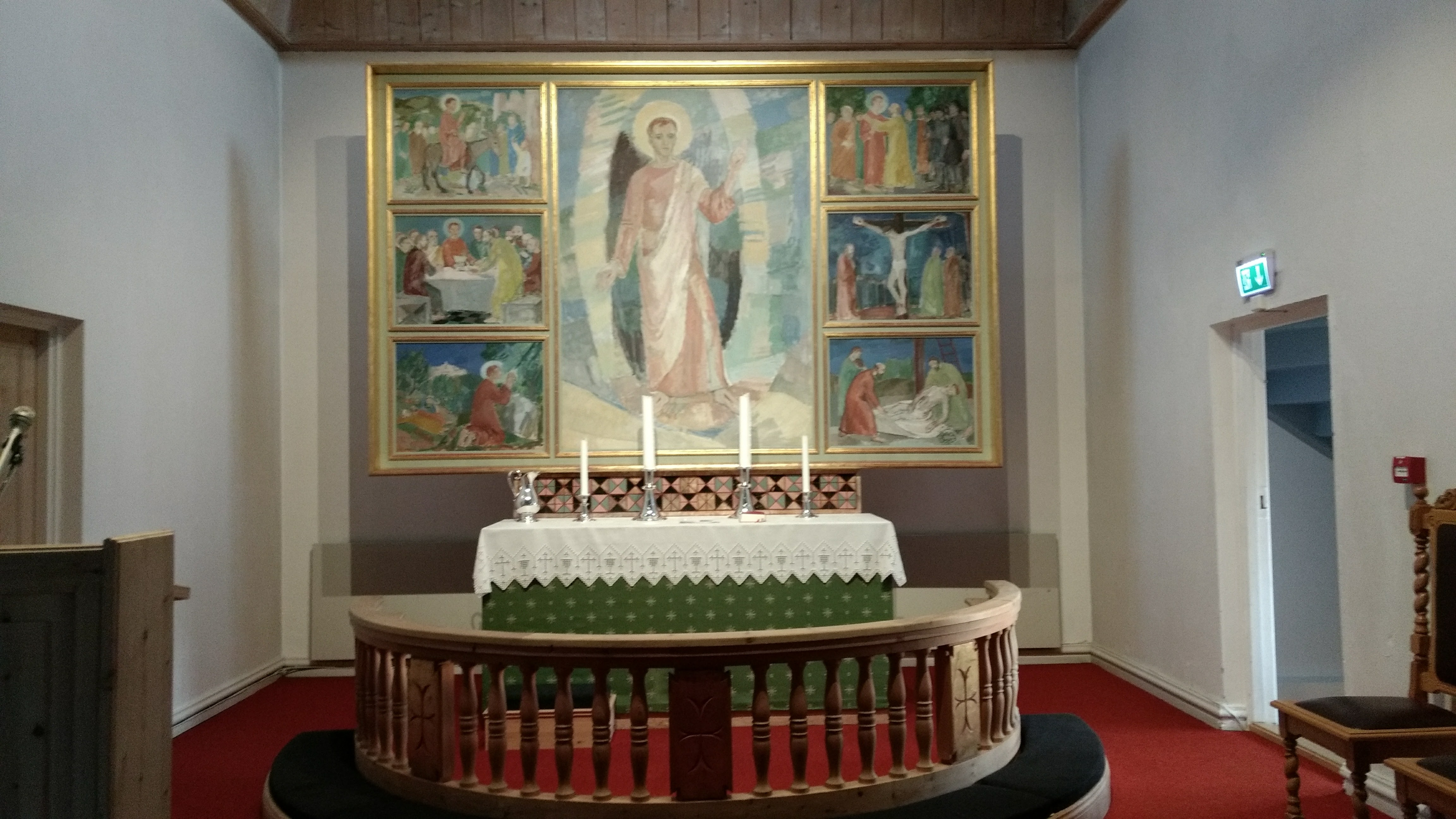 Altar in Havøysund church